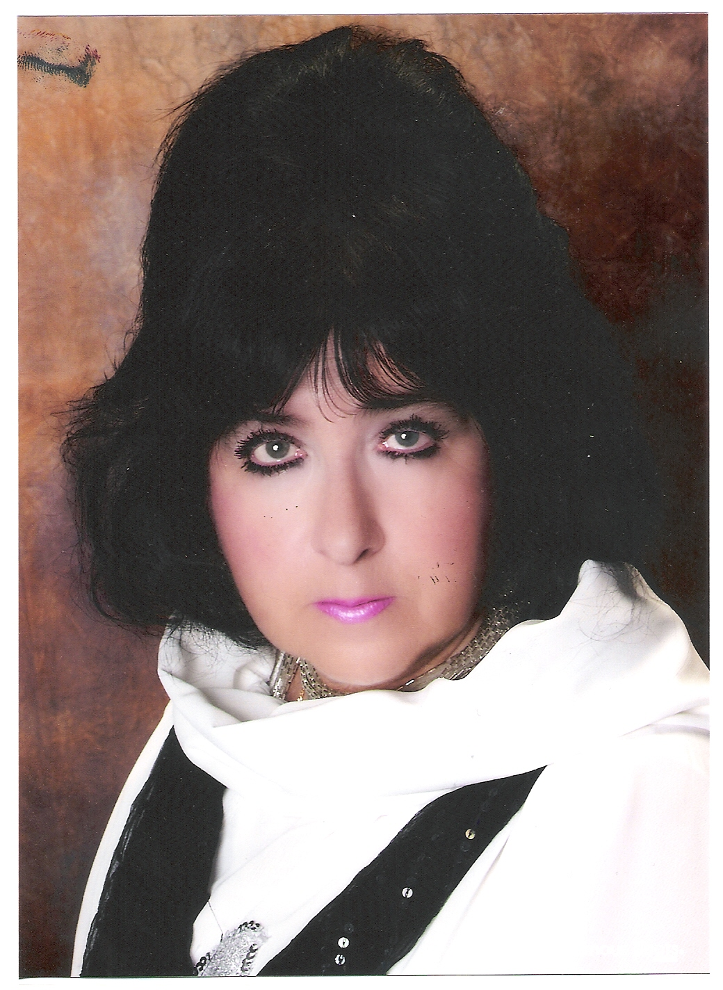 Photograph of Larisa Matros